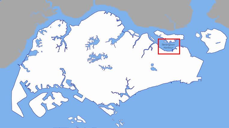 Authored by SpLoT(gallery)